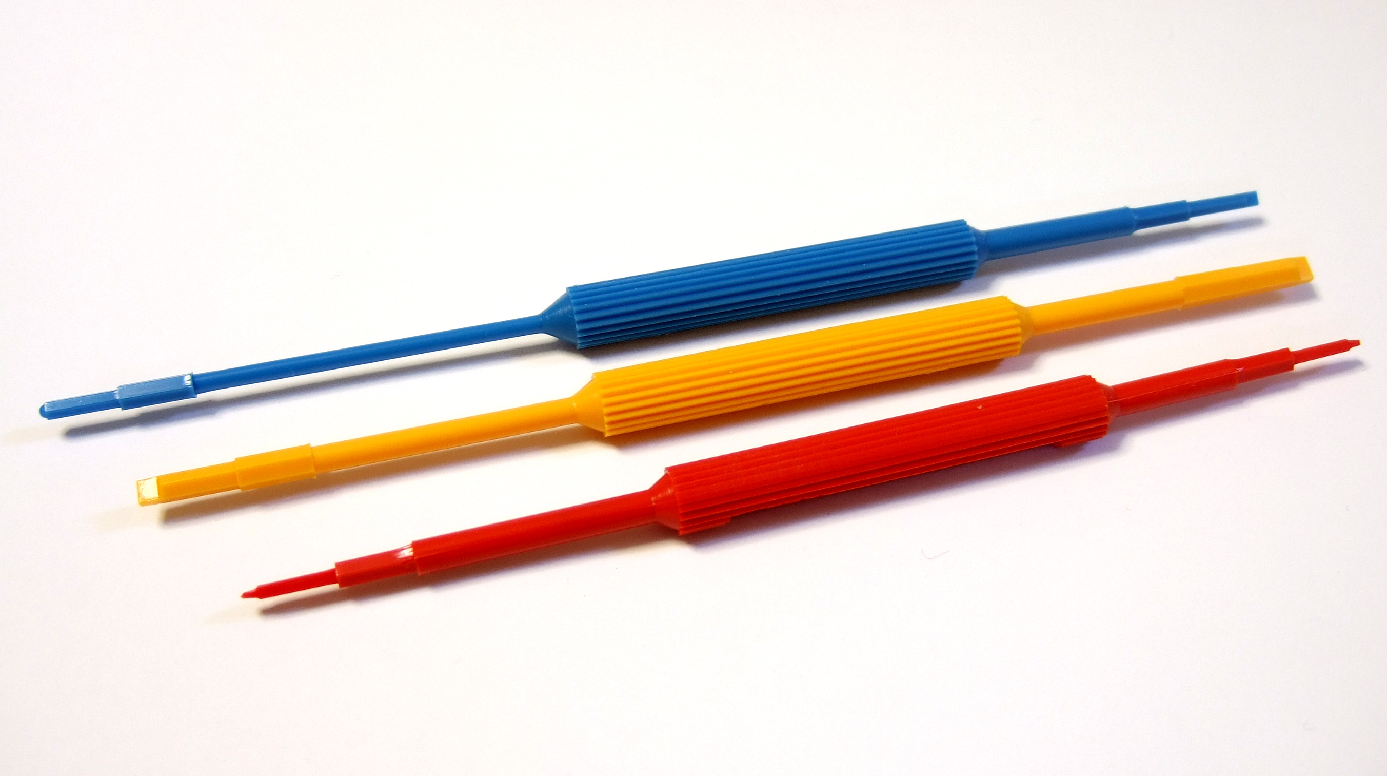 Core adjustment Screwdrver. Photo taken in Tokyo Japan.